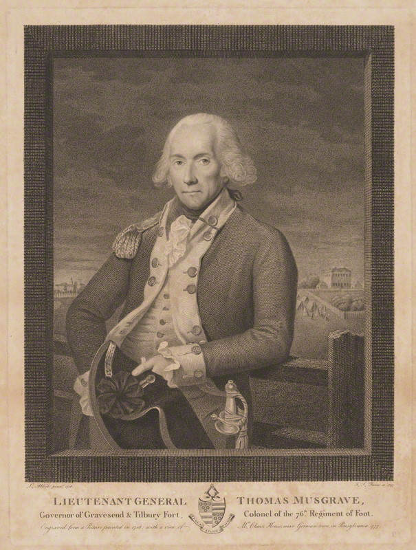 Sir Thomas Musgrave, 7th Bt